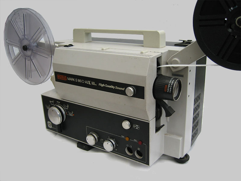 Super 8 movie sound projector Eumig Mark S810 personal picture